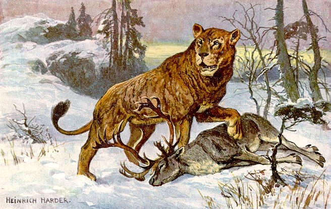 This Painting of a Cave Lion (Panthera leo spelaea) was made to illustrate one card of a set of 30 collector cards from "Tiere der Urwelt" (Animals of the Prehistoric World). From the Series III.´It is feeding on a reindeer. The picture was slightly edited (colors, contrast) by the uploader.